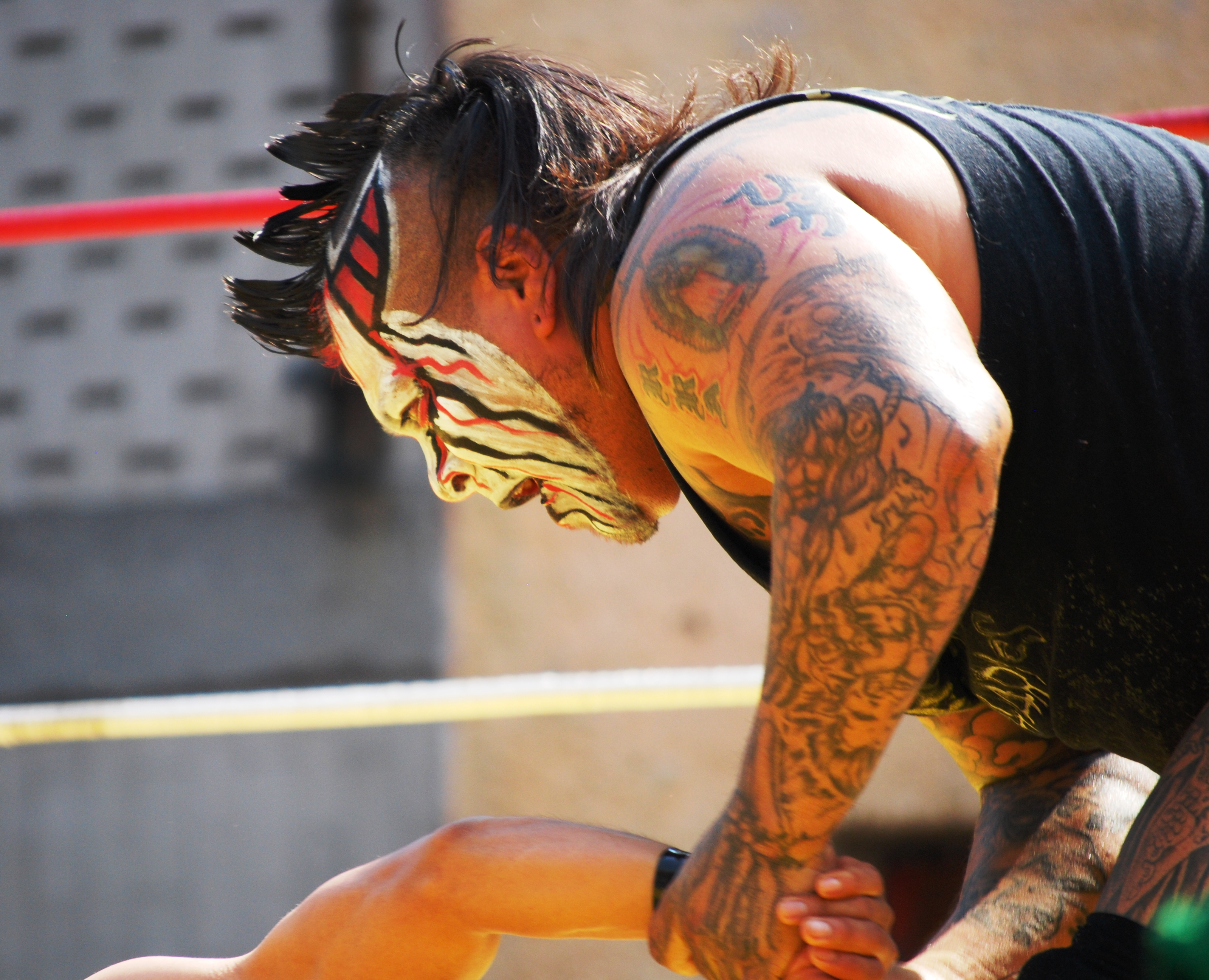 irst match at a CMLL lucha libre event part of Festival Día de Reyes Territorial Obrera Doctores in Mexico City